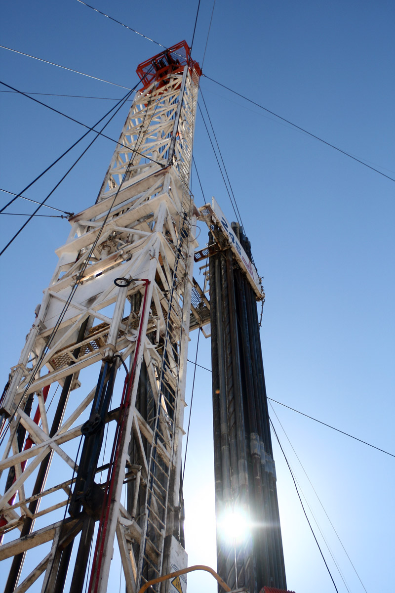 Driller